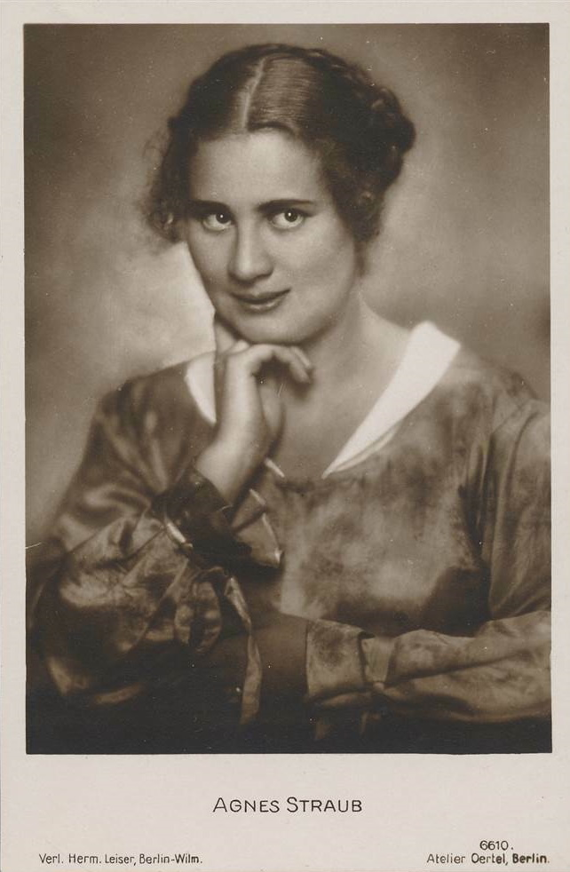 Portrait of German actress Agnes Straub (1890–1941) by Atelier Oertel, Berlin (Eduard Oertel).